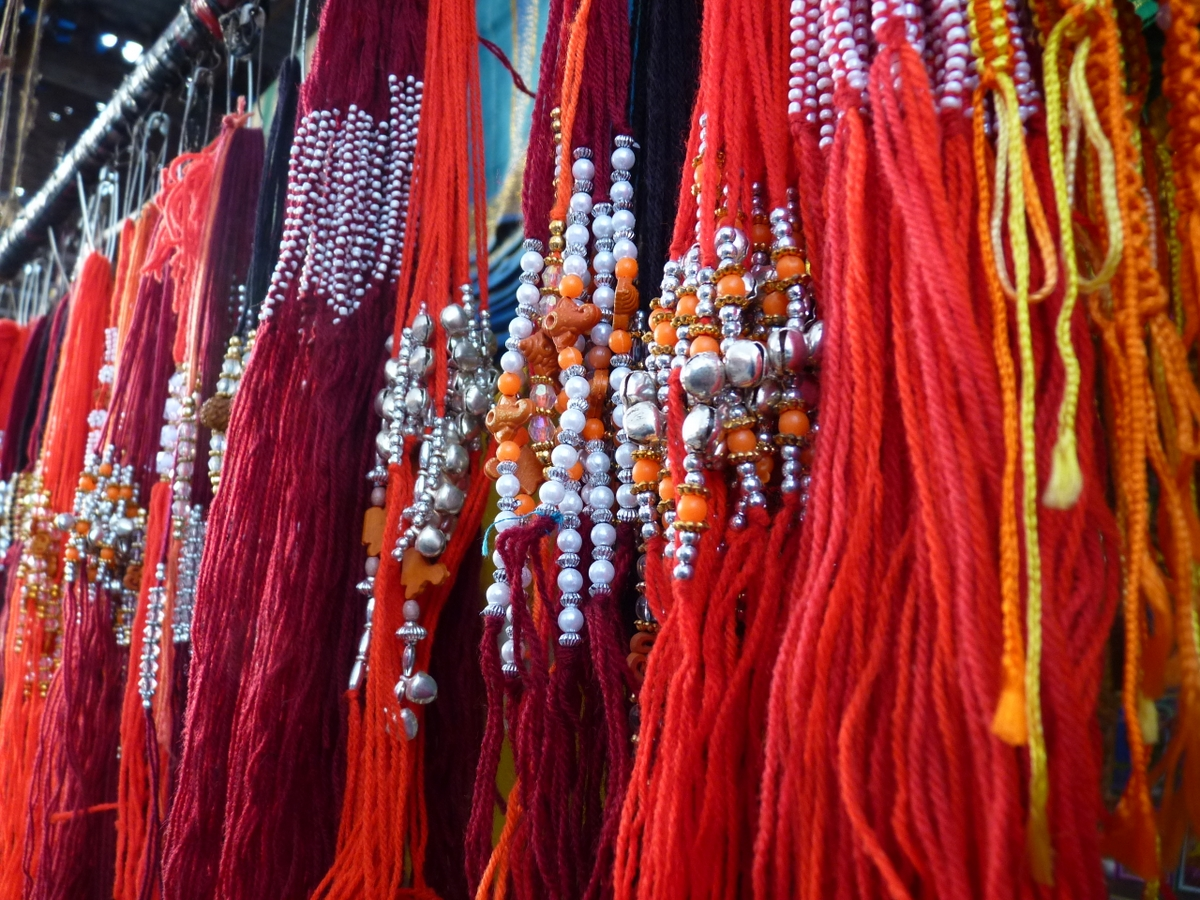 Raksha bandhan is an Indian festival that celebrates the love between sister and brother. It is also celebrated between any female and any male, regardless of age, to mark their sacred sister-brother like protective and respectful relationship. On that day, the woman does an aarti - a ritual signifying respect and love, then ties a thread on his wrist, followed by feeding each other with sweets. Raksha bandhan is a historic festival, prevalent among Hindus, Jains and Sikhs. Rakhi is a thread that a woman ties to a man (sister to a brother). They come in many colors, but safron, red and orange are most common. Sometimes above the thread are colorful decorative pieces.